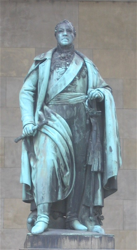 Statue to Karl Wrede, Feldherrnhalle, Munich, Bavaria, Germany.